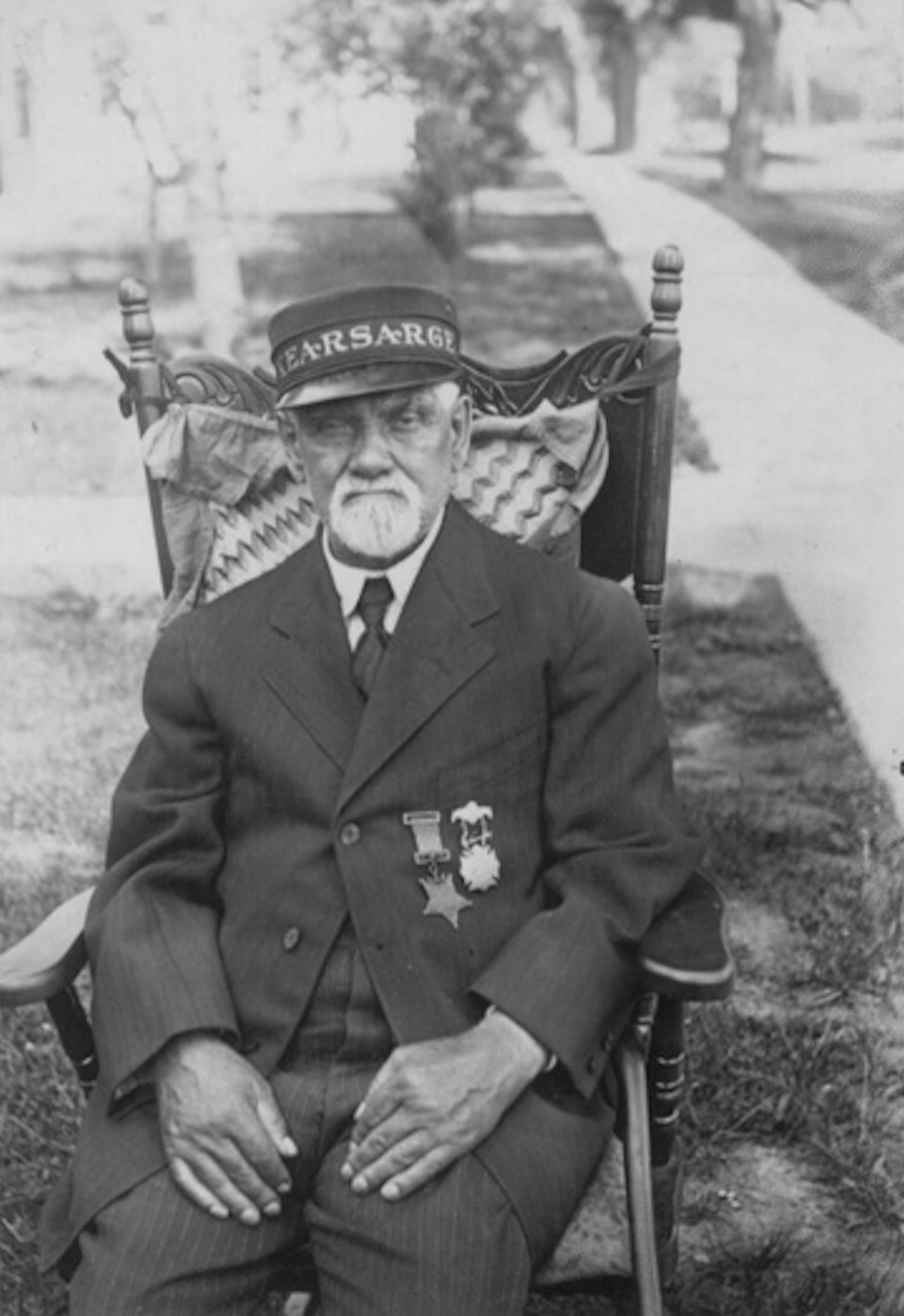 Medal of Honor winner